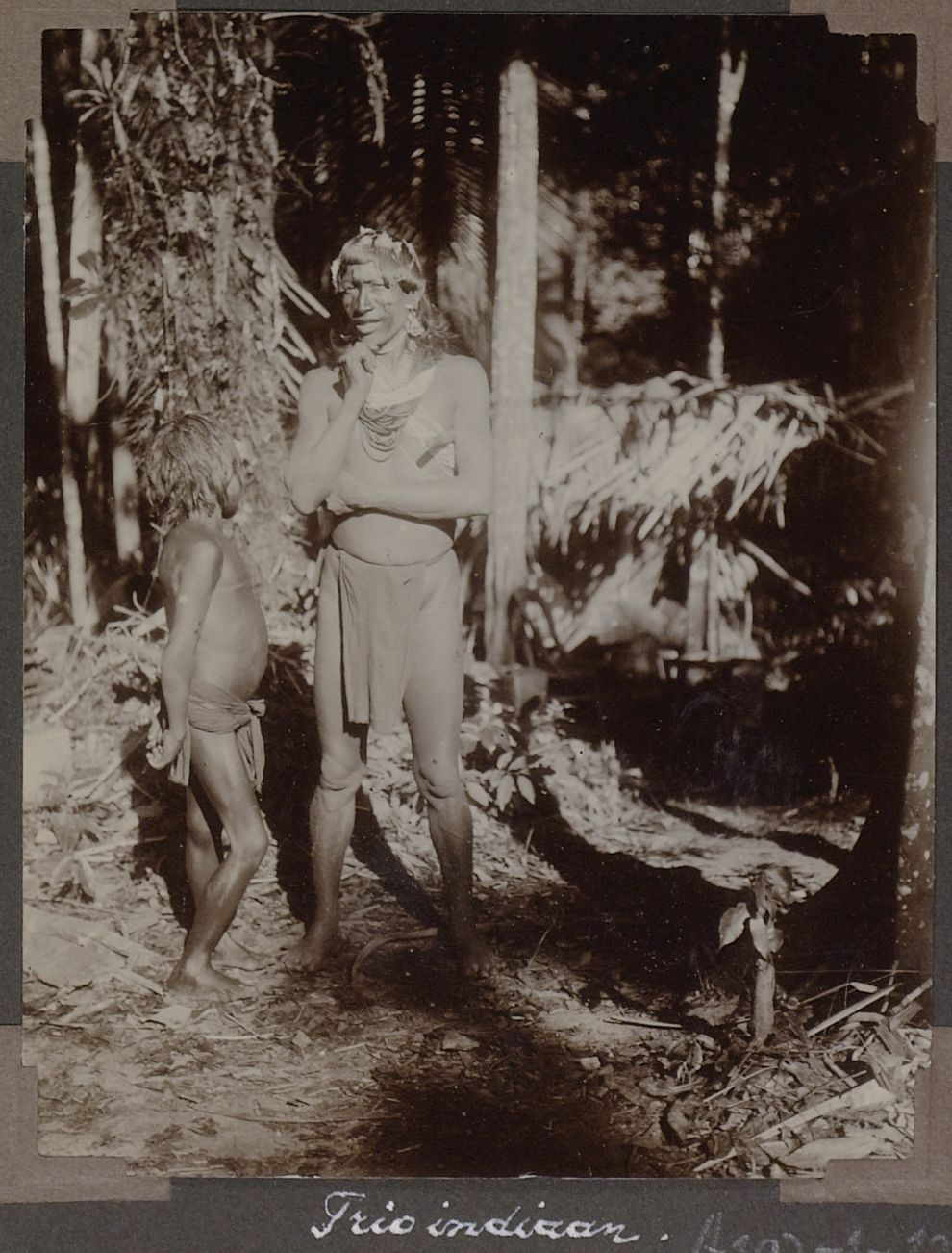 Photograph made during the Tapanahoni Expedition in Suriname, 1904. The Royal Dutch Geographical Society (KNAG) conducted an expedition to explore the surroundings of the Tapanahoni River and to do research among the people residing there.